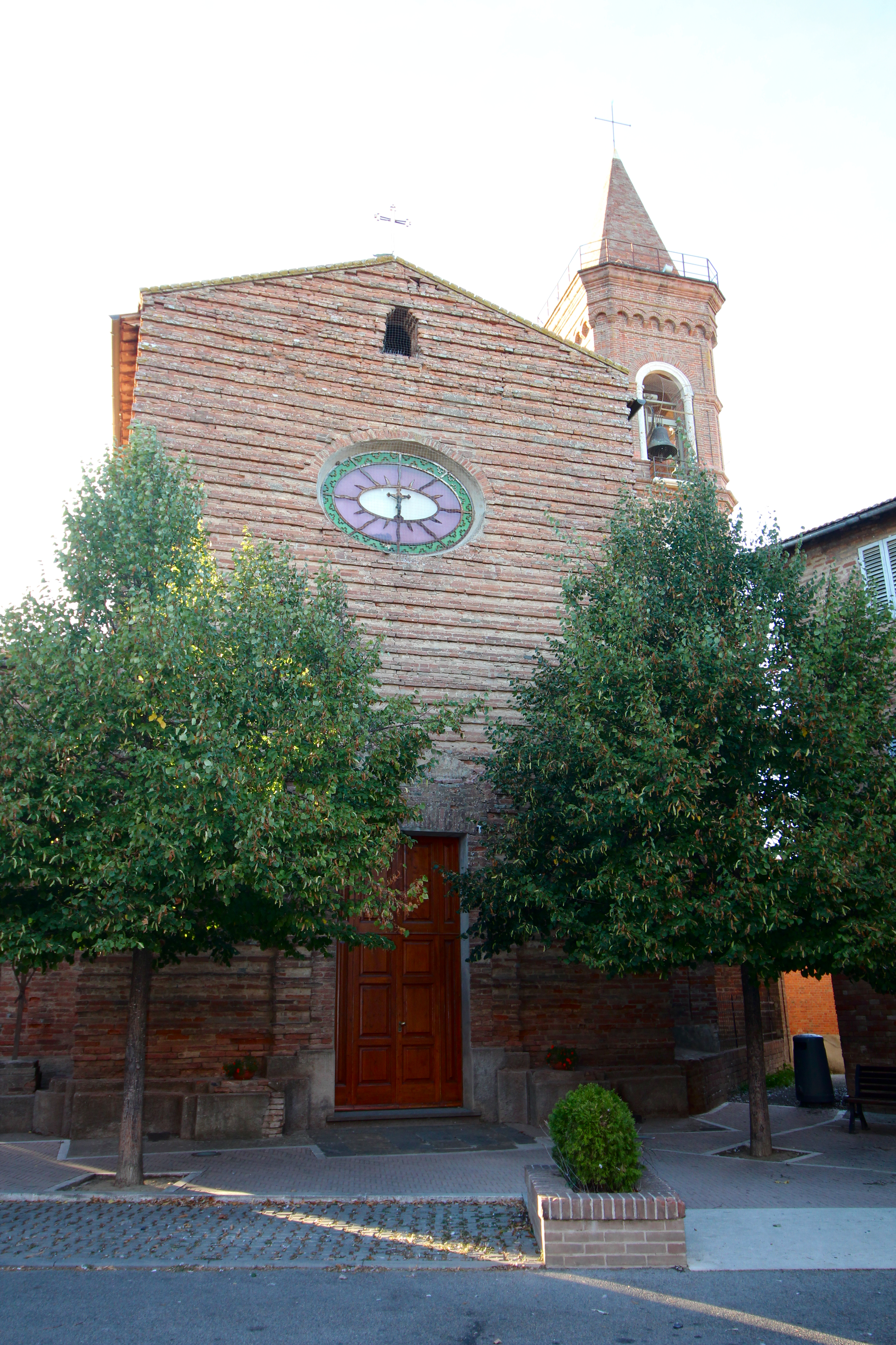 Church San Lorenzo, Gioiella, hamlet of Castiglione del Lago, Province of Perugia, Umbria, Italy